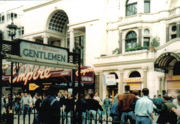 Football hooligana clash